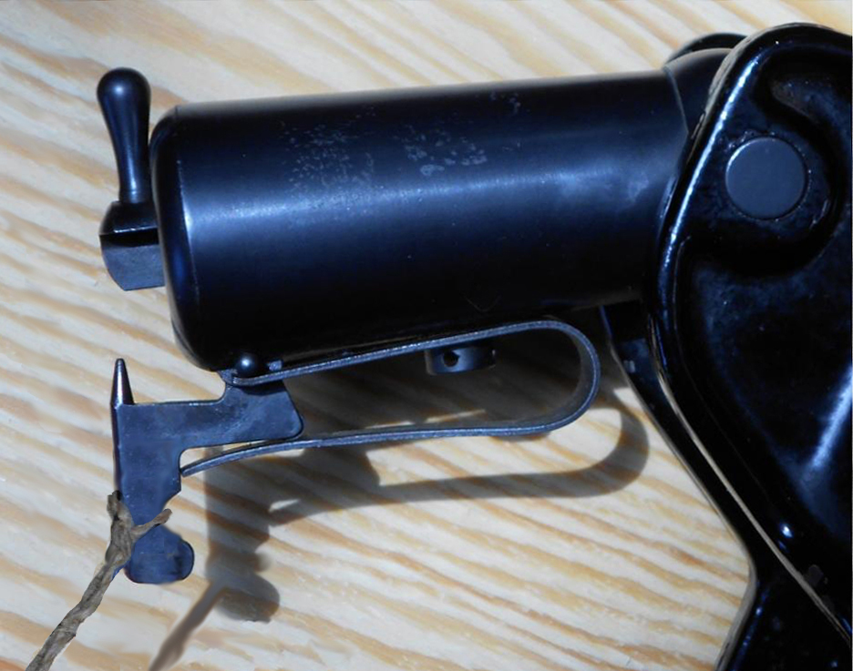 CanWinch Hammer